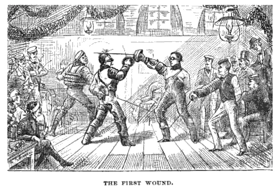 "The First Wound", illustration by Walter Francis Brown (1853-1929) for Mark Twain's A Tramp Abroad, first published in 1880, copyright expired